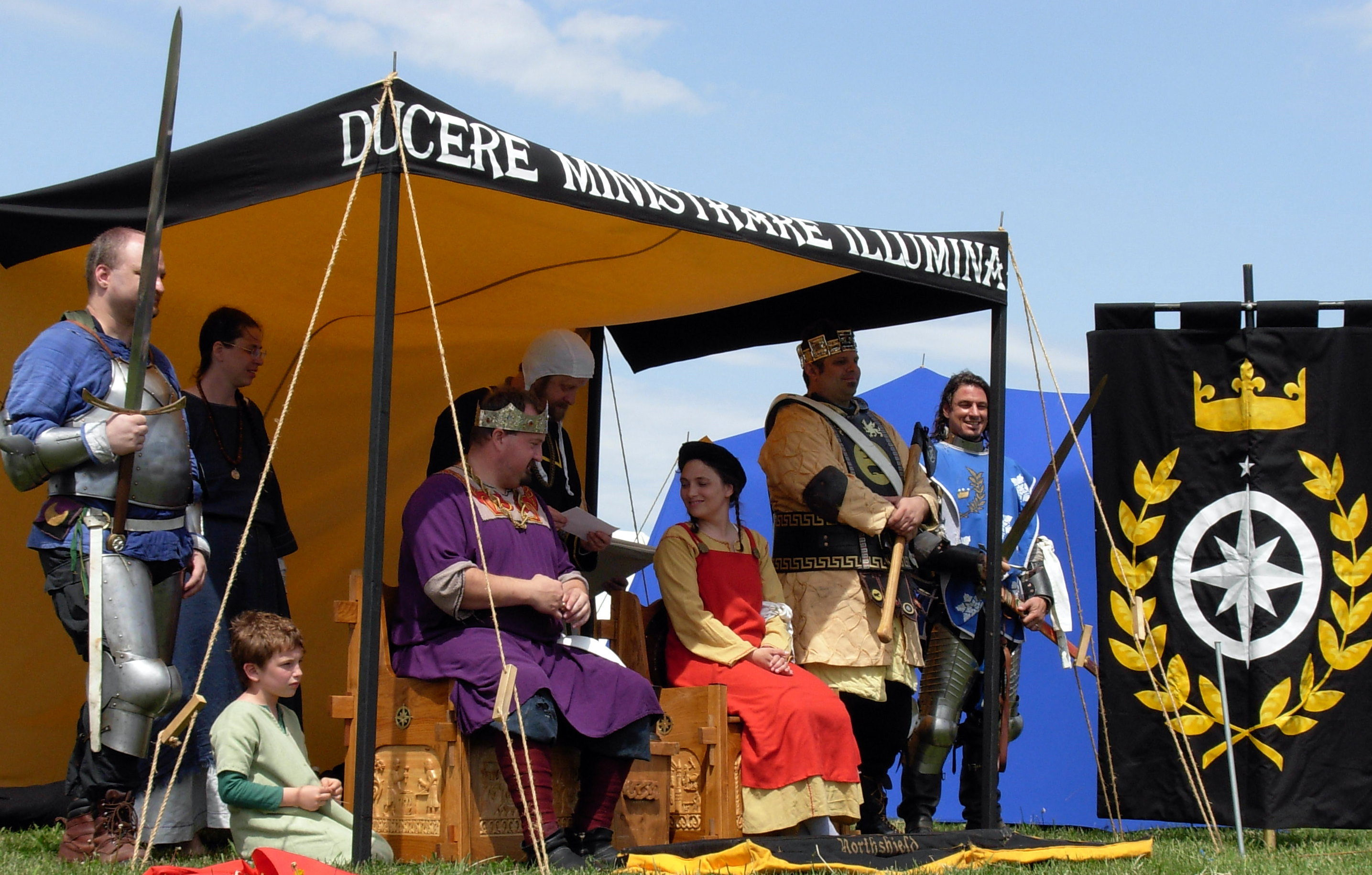 Kingdom of Northshield court in the Society for Creative Anachronism